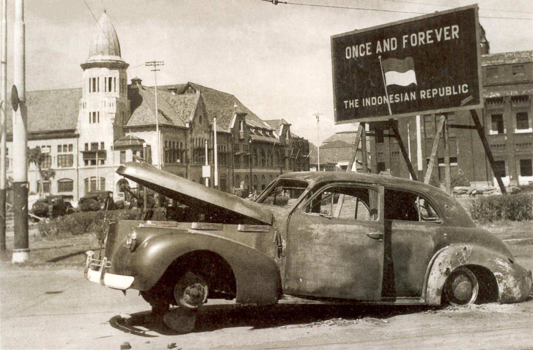 The burnt-out LaSalle 1940 Series 52 Sedan of a Brigadier A W S Mallaby on the spot where he was killed by pro-Independence Indonesian soldiers during the Battle of Surabaya on 31 October 1945. Mallaby was de commandant van de 49e Britse India Brigade